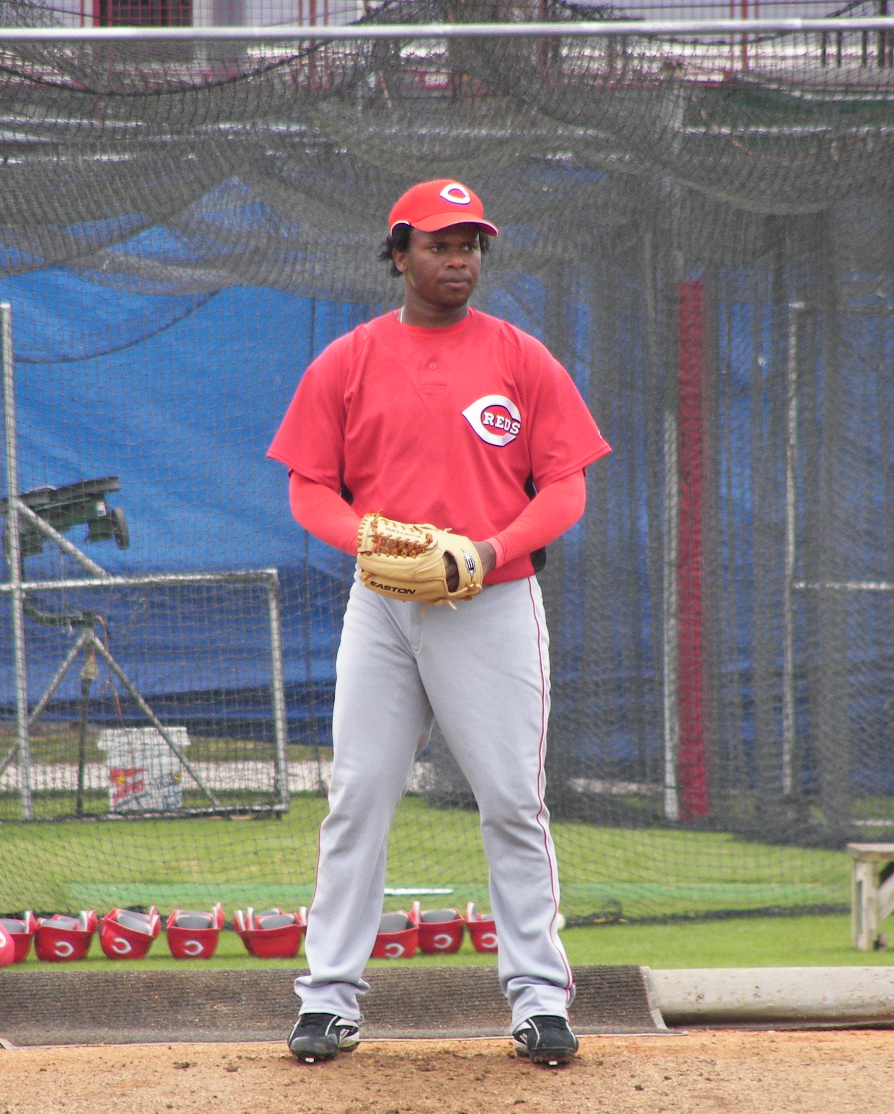 Cincinnati Reds pitcher Johnny Cueto during a Spring Training workout outside Ed Smith Stadium in Sarasota, Florida.